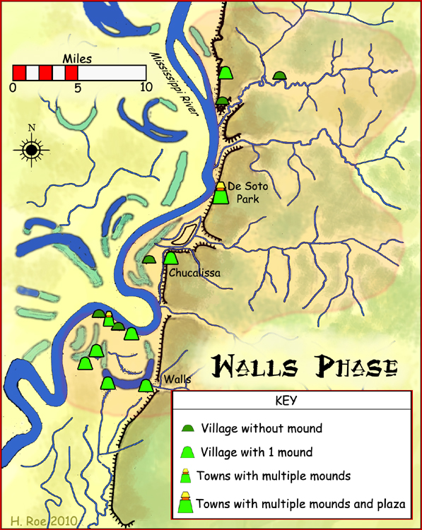 A map showing the Walls Phase, a Mississippian cultural component, and its associated sites in Shelby County, Tennessee and De Soto County, Mississippi.